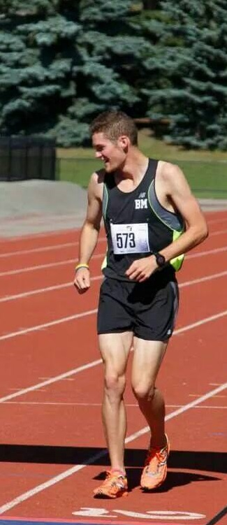 Young up-and-coming Canadian, Trevor Hofbauer, inspiring the next generation of runners after crushing his competition at the Dino Dash.